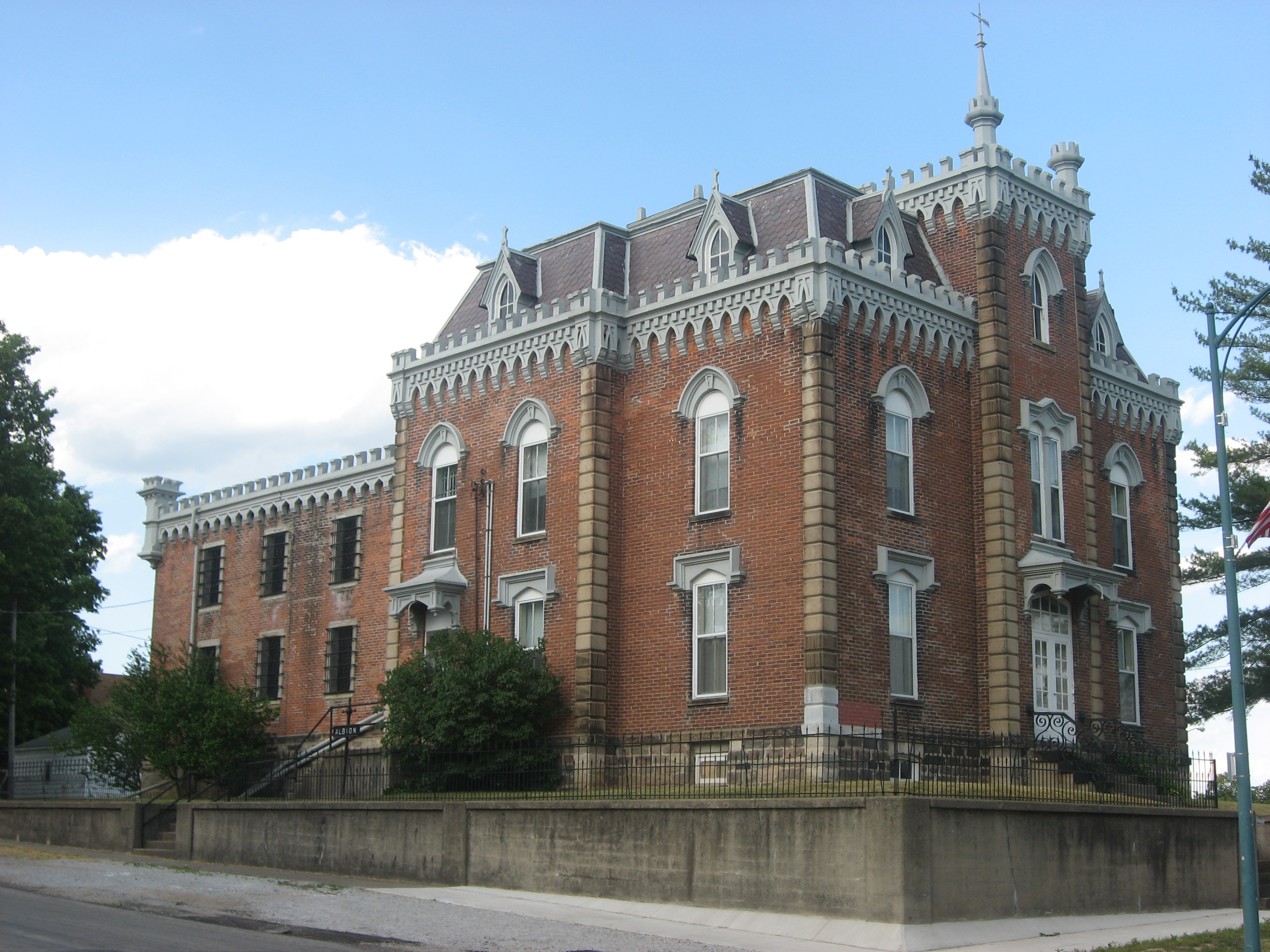 Front and western side of the Noble County Sheriff's House and Jail, located on the northeastern corner of the junction of Main and Oak Streets in Albion, Indiana, United States. Built in 1875, it is listed on the National Register of Historic Places.